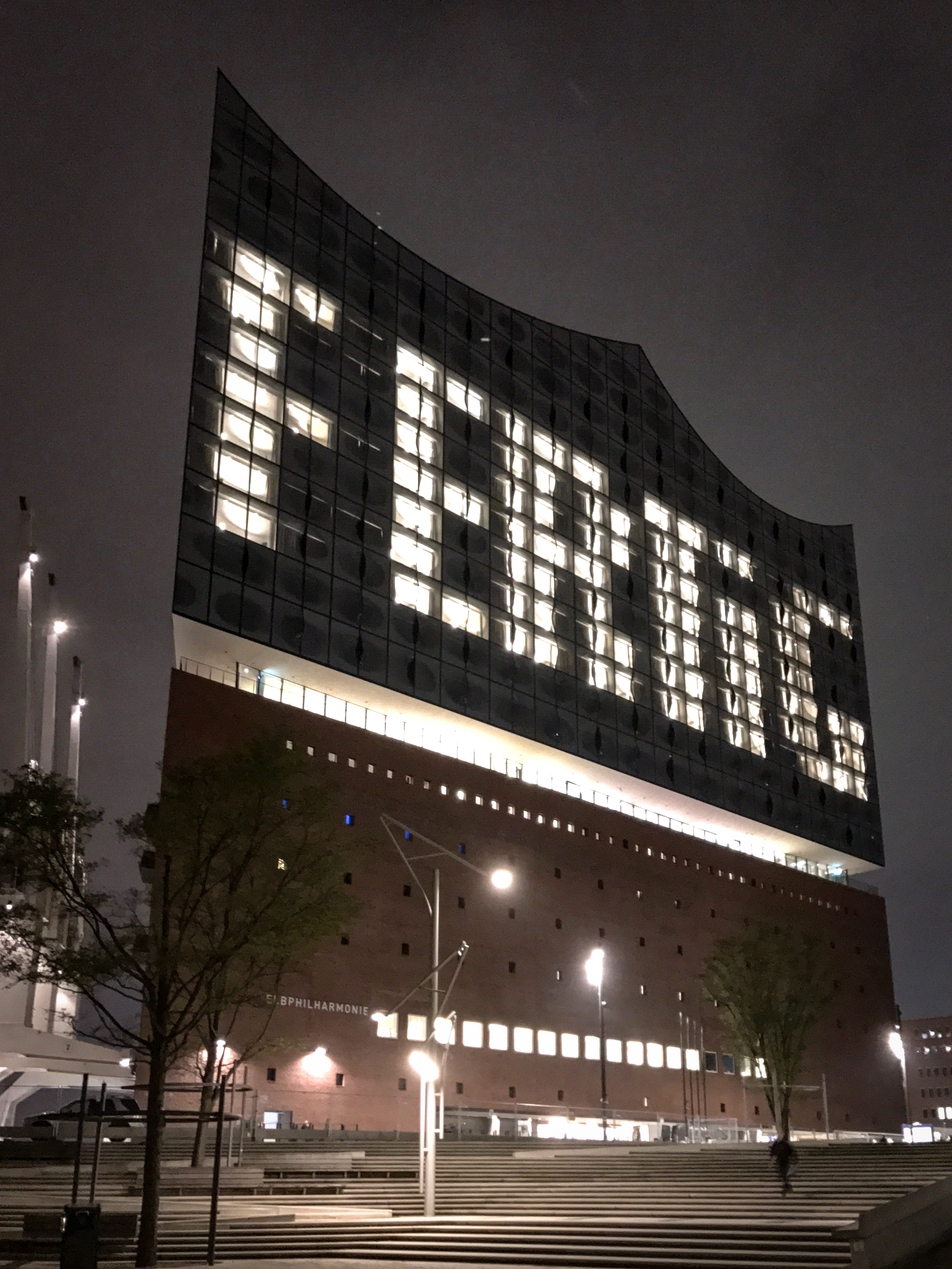 Elbphilharmonie Concert Hall, Hamburg - The blinkenlights-like writing 'FERTIG' means 'READY'